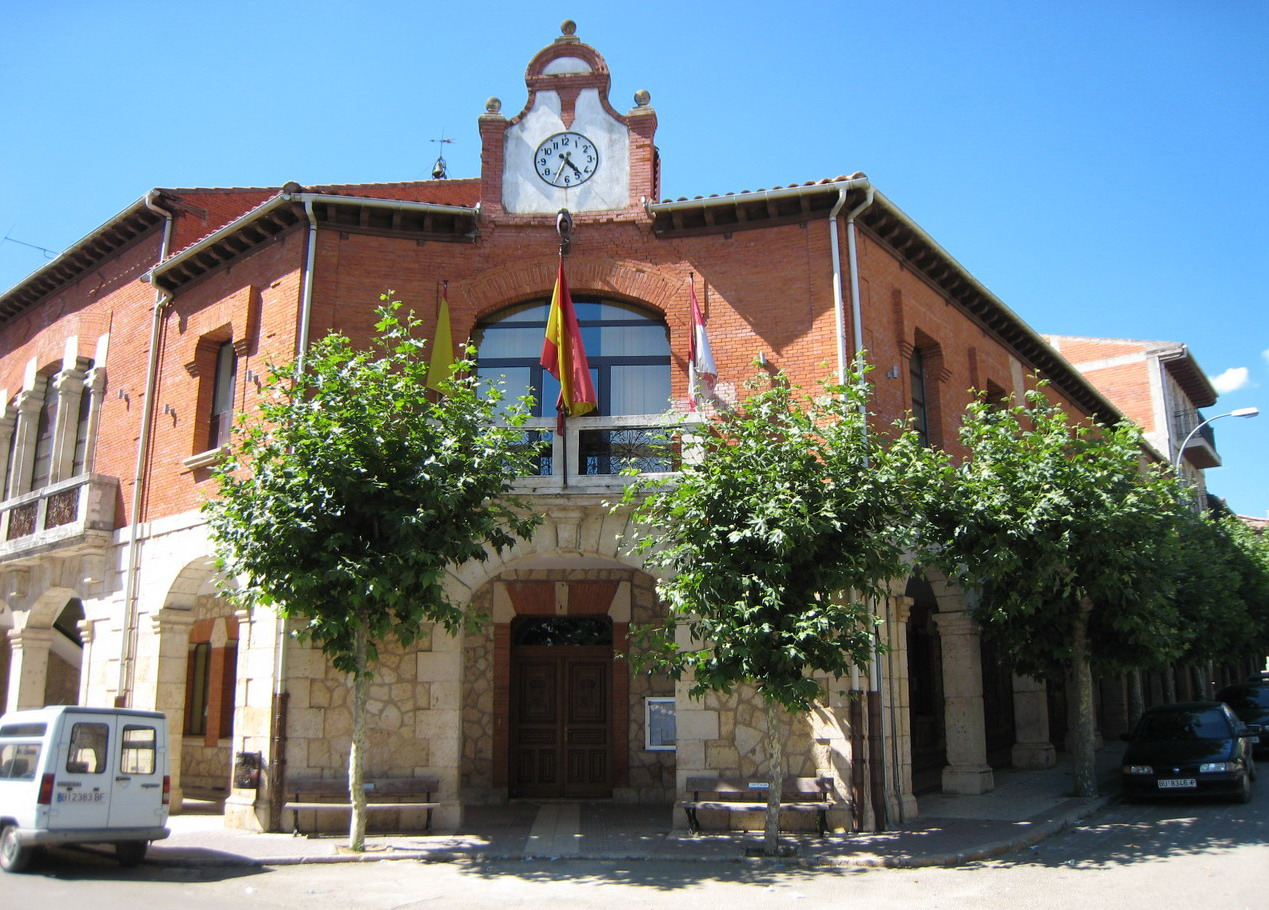 Huerta de Rey Town hall (Burgos) Spain